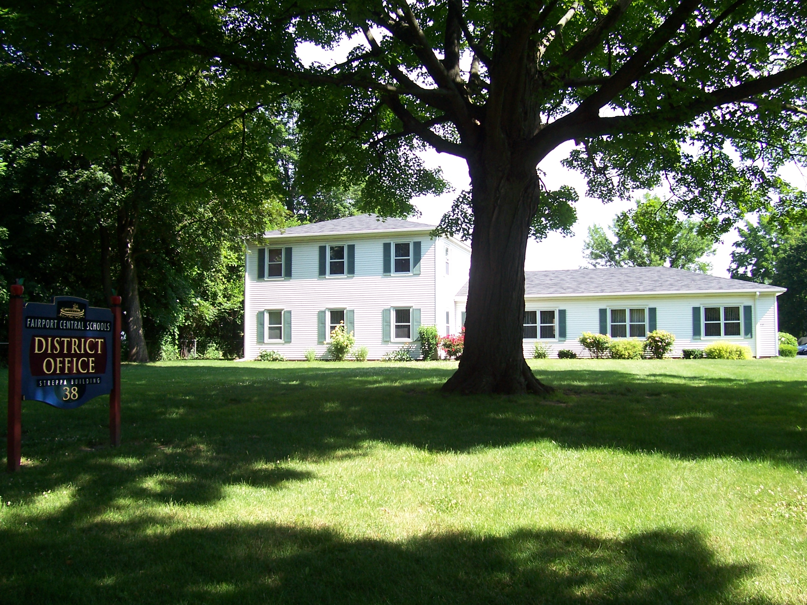 Fairport Central School District main office in the village of Fairport, New York